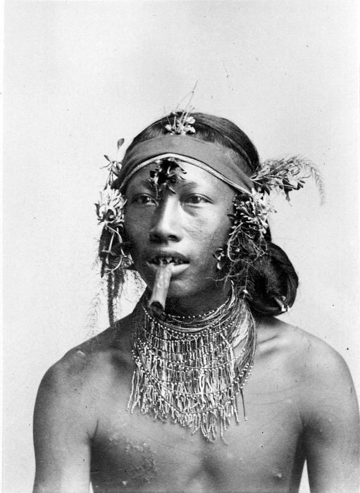 Repro Negative. A smoking man in traditional dress and with filed teeth